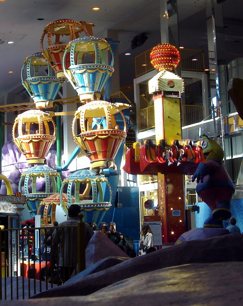 "Baloon Race" in Galaxyland, West Edmonton Mall, Edmonton, Alberta, Canada